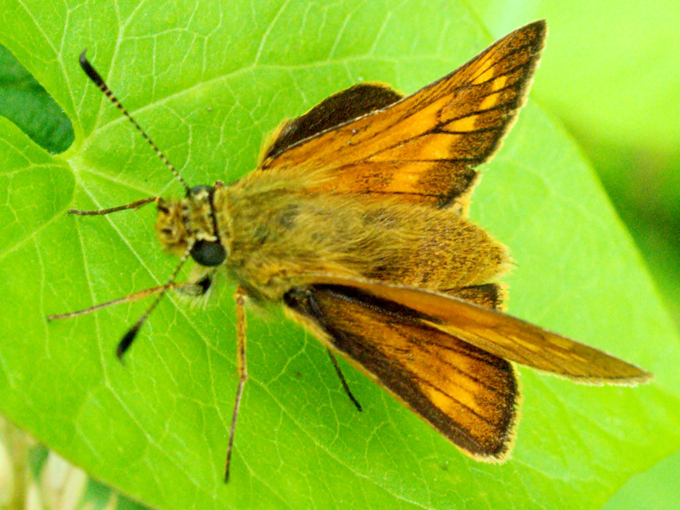 Name: Ochlodes sylvanus, female. Family: Hesperiidae. Location: Münster, NRW, Germany